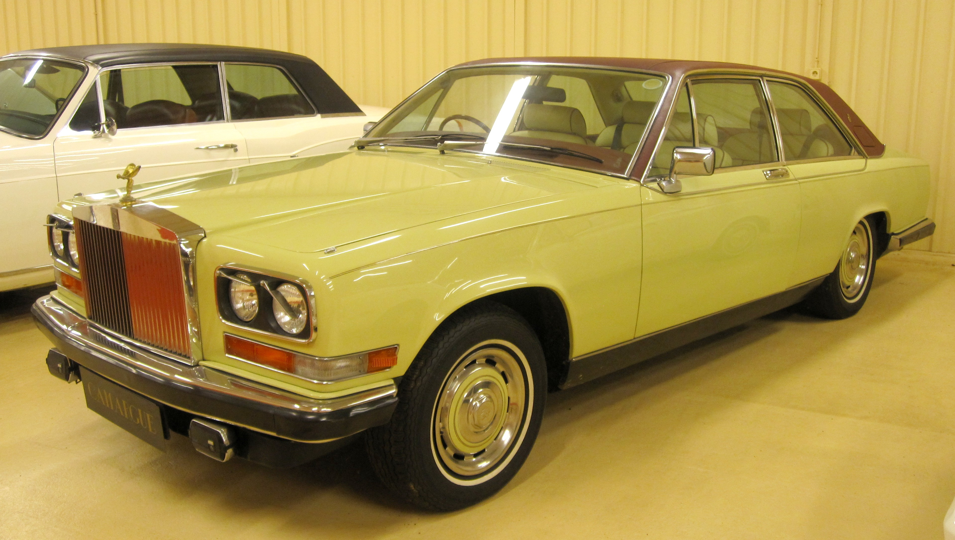 The first time I visited this museum I remember absolutely loving this car, I didn't know the Camargue back then so it did impress me when I saw it. Shows my passion for big coupés I guess! Definetly one of the best pieces at the museum, shame I couldn't get closer and check the interior.